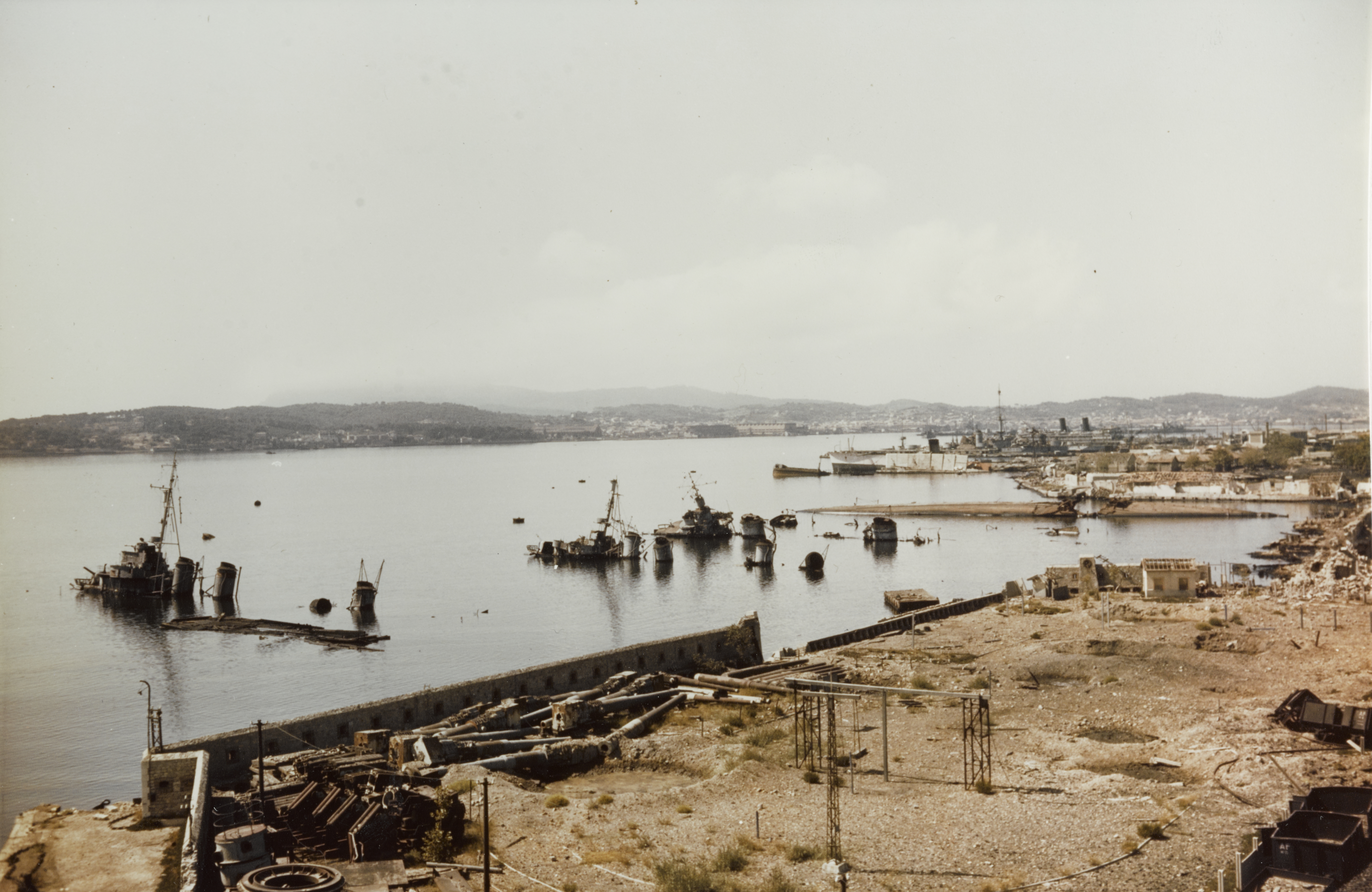 Scuttled French ships in Toulon; (from left to right): Tartu, Cassard and L'Indomptable (all sunk upright), Vautour (nearly fully submerged) and Aigle (capsized and blown in two). In the right center distance is the partially dismantled old battleship Condorcet.